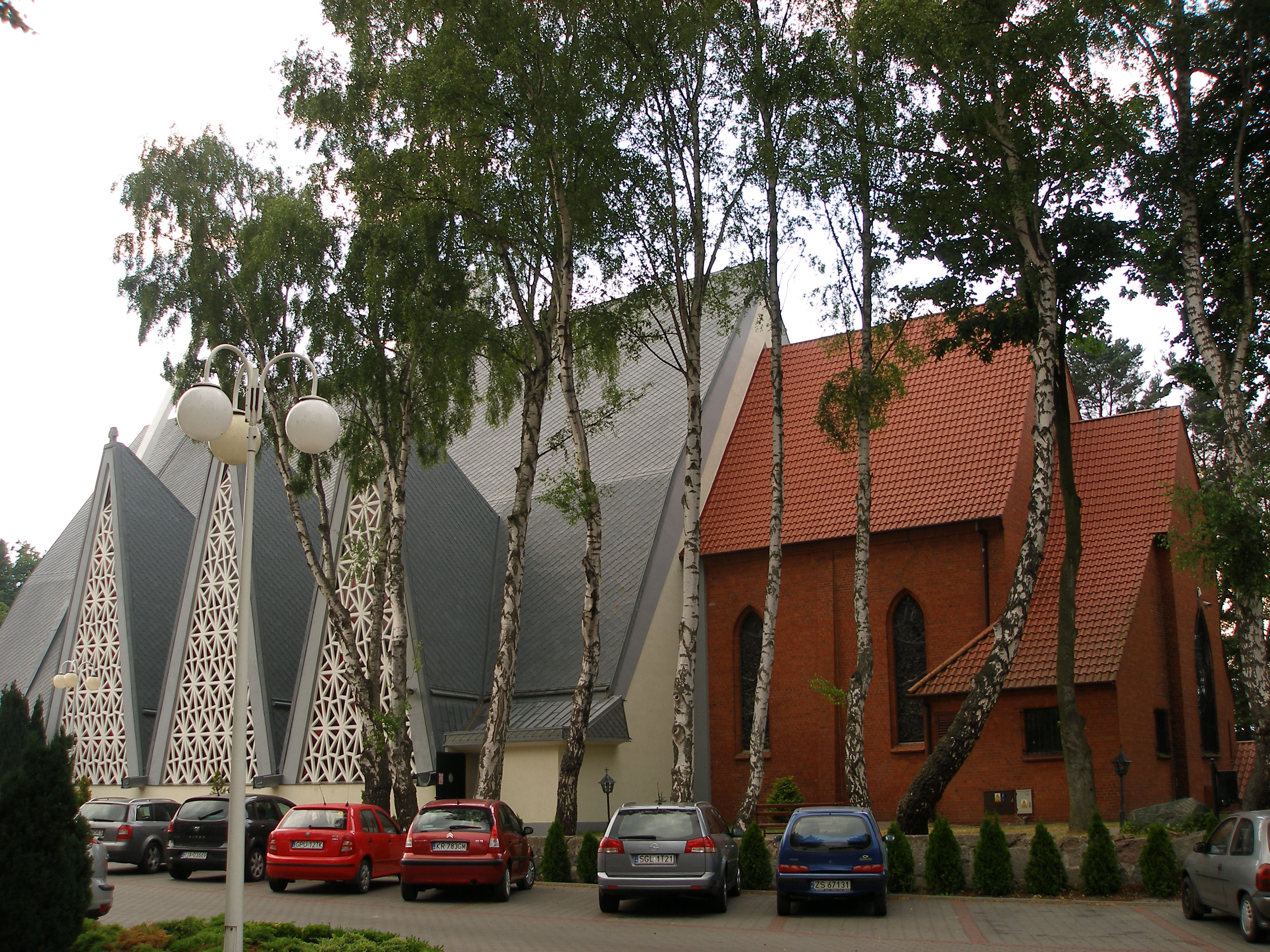 Church of the Assumption of the Blessed Virgin Mary in Władysławowo